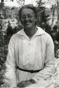 Swedish teacher and journalist Dagny Thorwall (1883-1933)